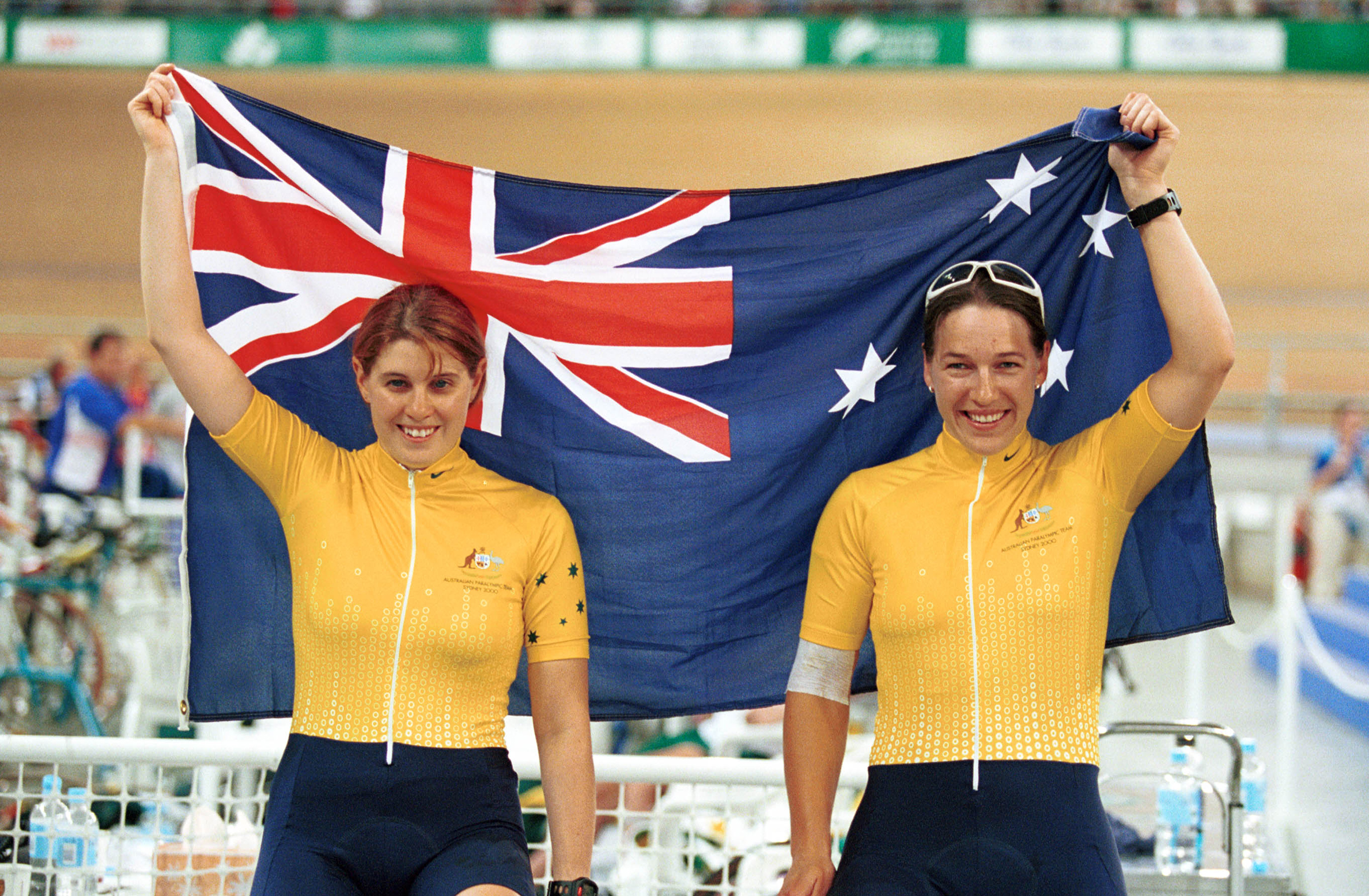 Australian track cyclists Sarnya Parker and Tania Modra (pilot) hold up the Australian flag at the 2000 Sydney Paralympic Games Women's Tandem Individual Pursuit Open. They won gold in this event.